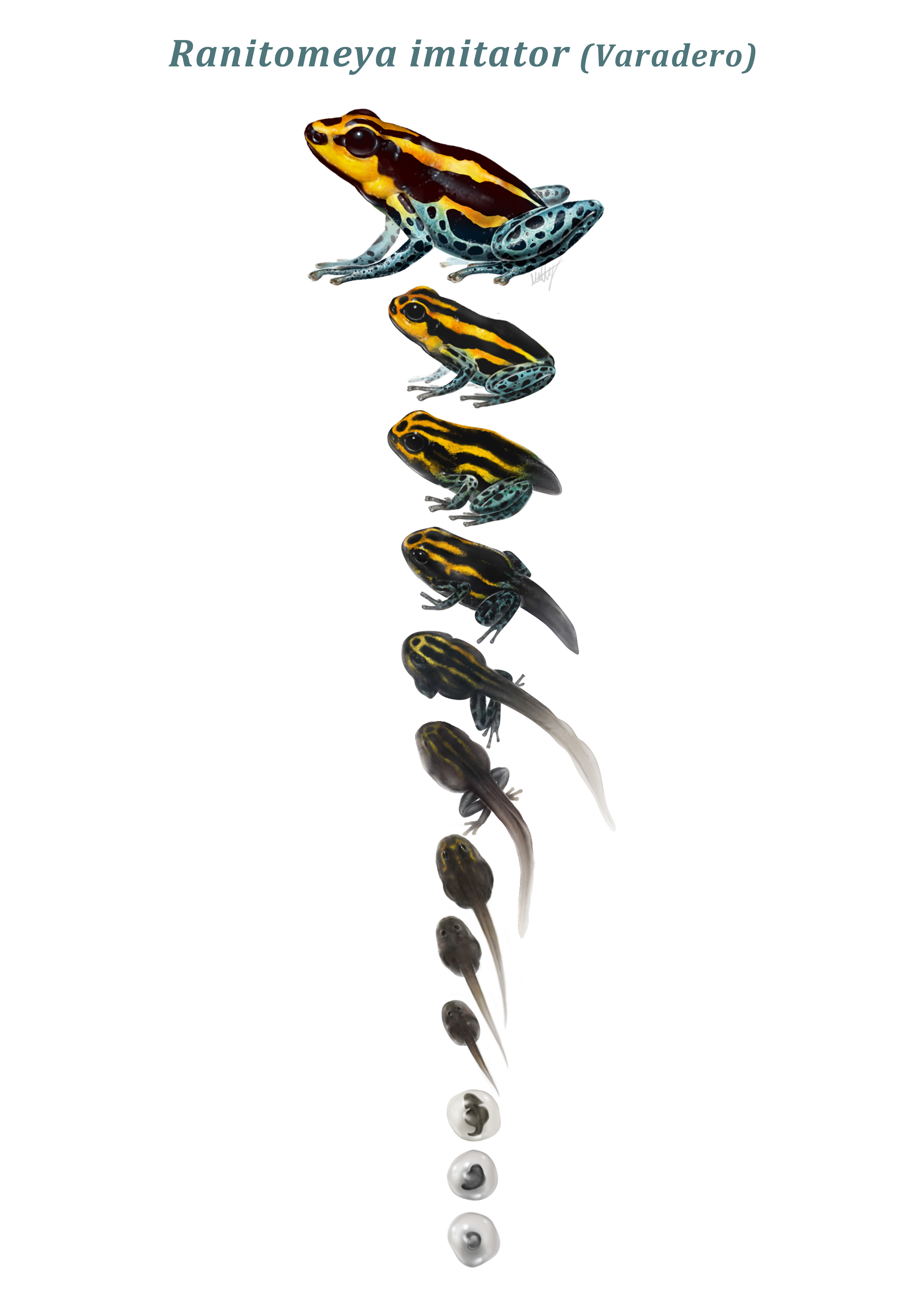 Digital illustration showing thumbnail dartfrog Ranitomeya imitator (Varadero) and its development in life stages.